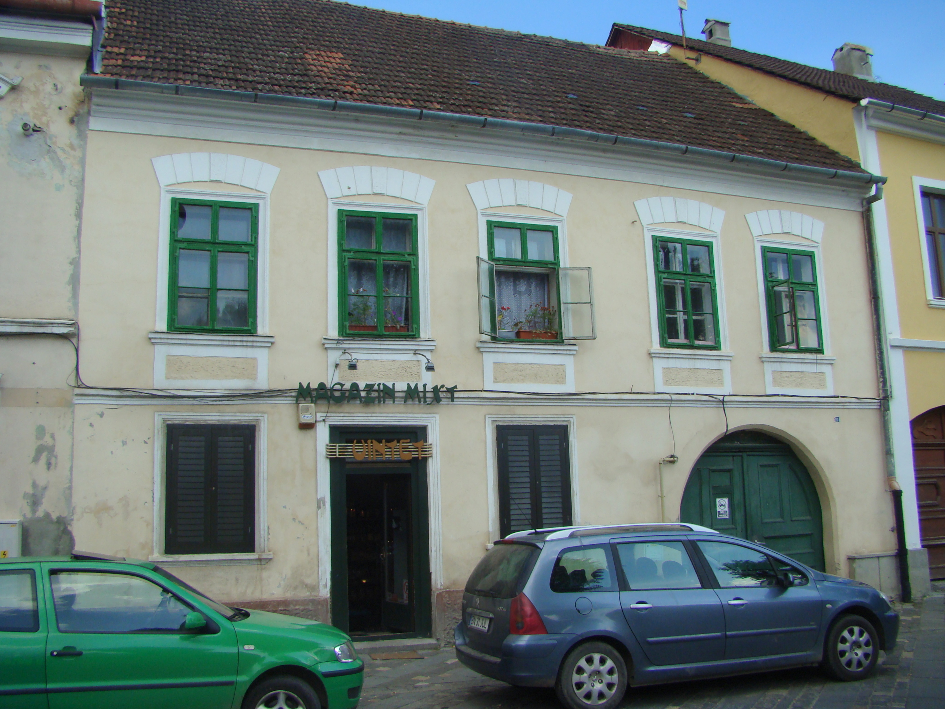 House, historic monument, in Bistrița, Piața Mică 10